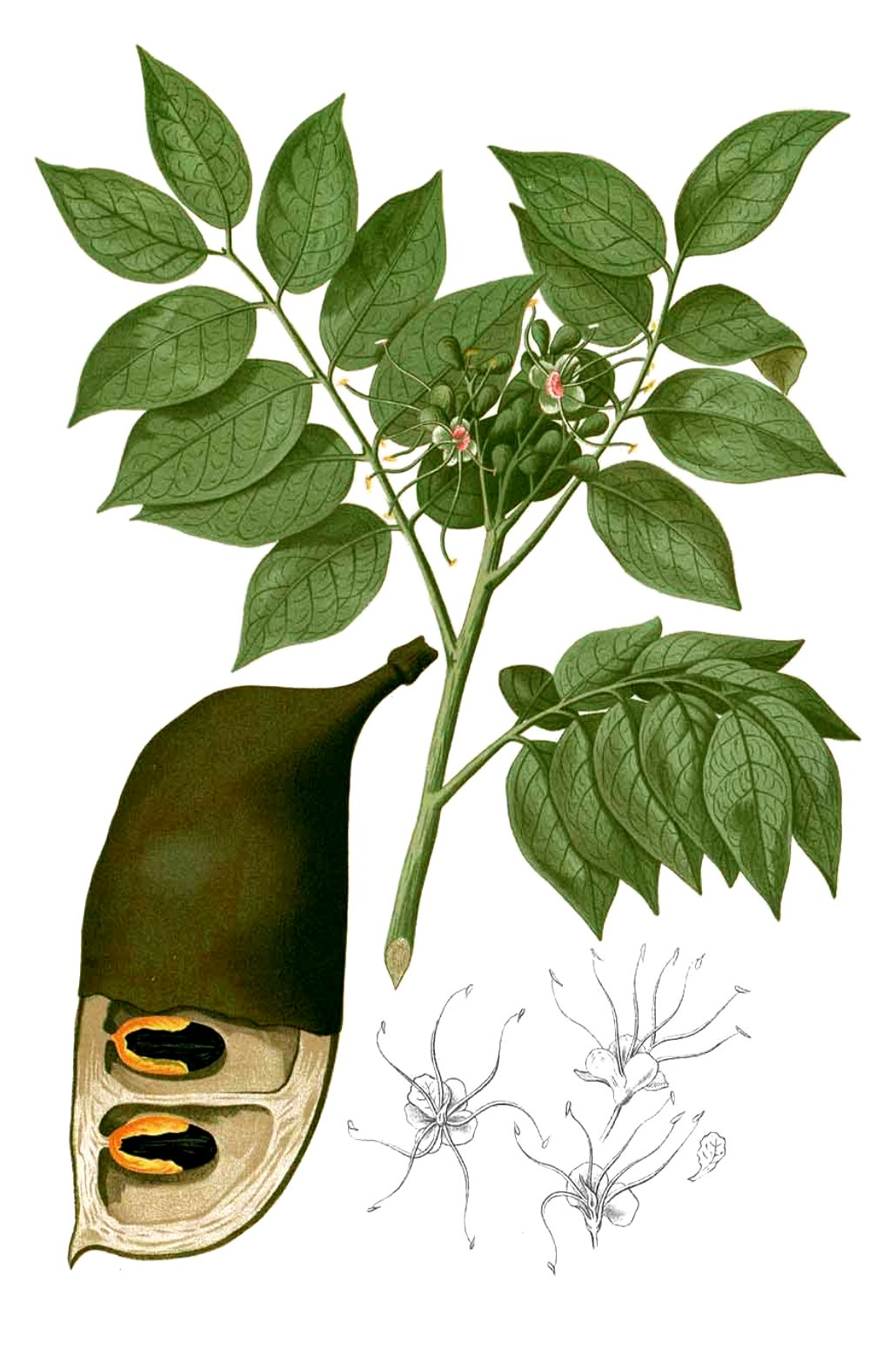 Plate from book